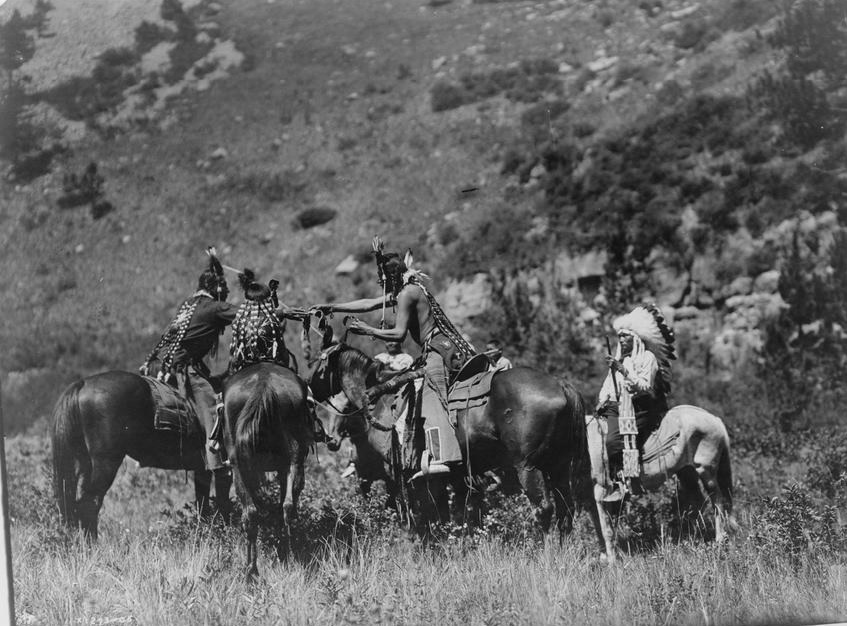 A Swap by Edward S. Curtis showing mounted Crow men trading equipment, 1905.